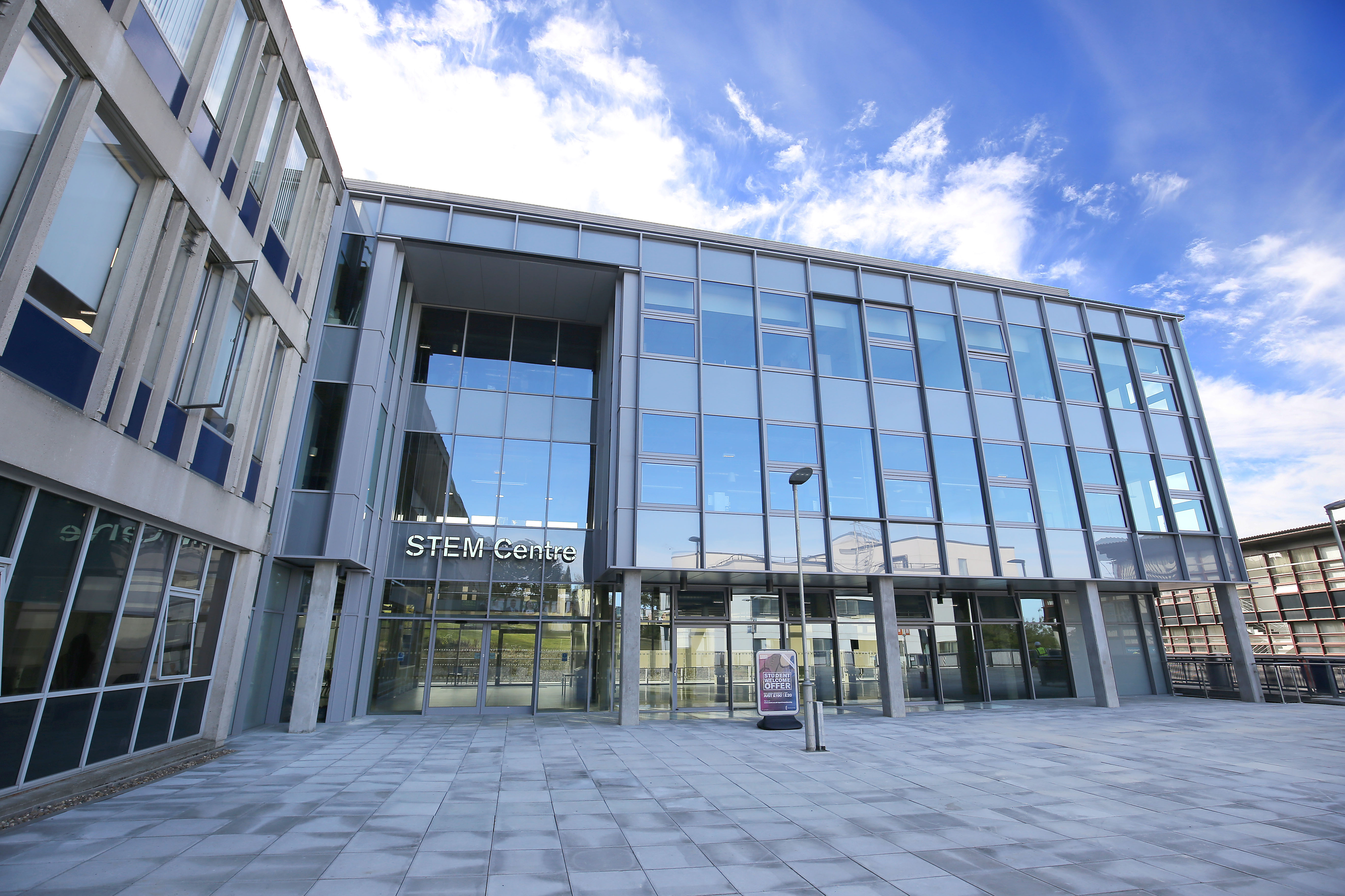 The STEM Centre building at the University of Essex Colchester campus